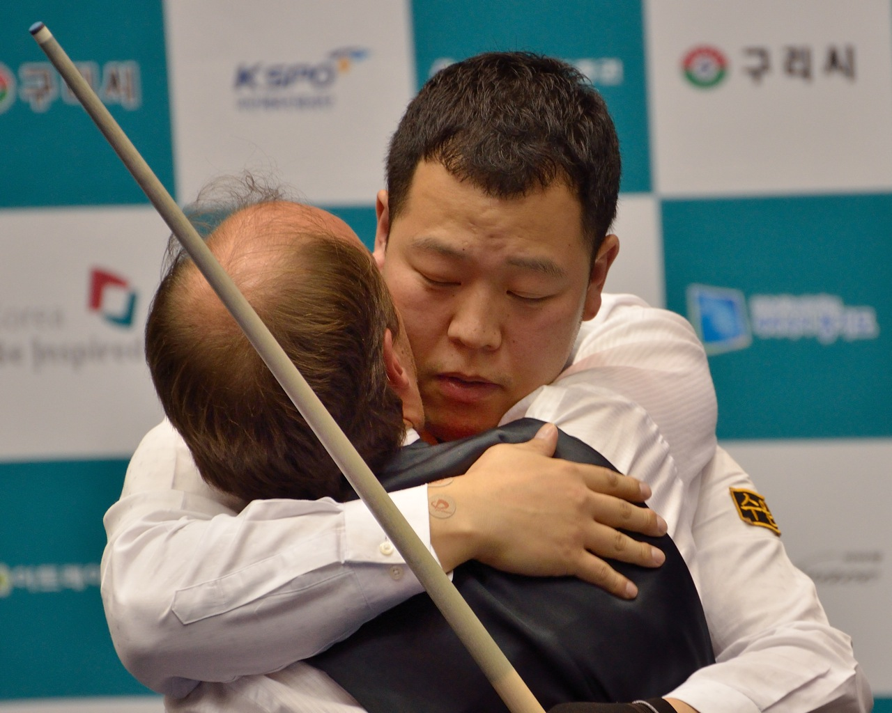 Kang Dong-koong is hugging spanish player Daniel Sanchez after his victory in Guri at the 2013/2 3-cushion World Cup